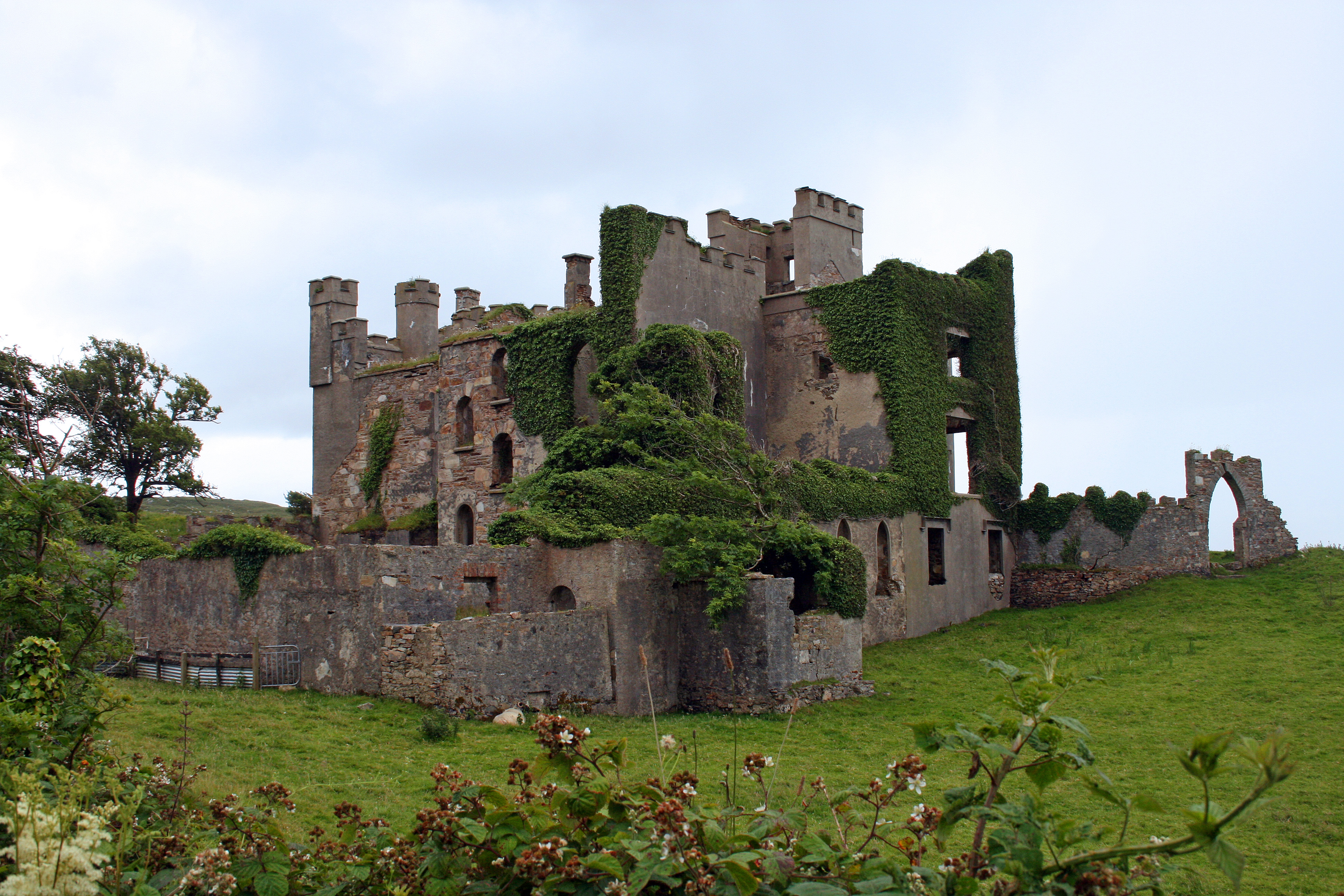 Clifden castle